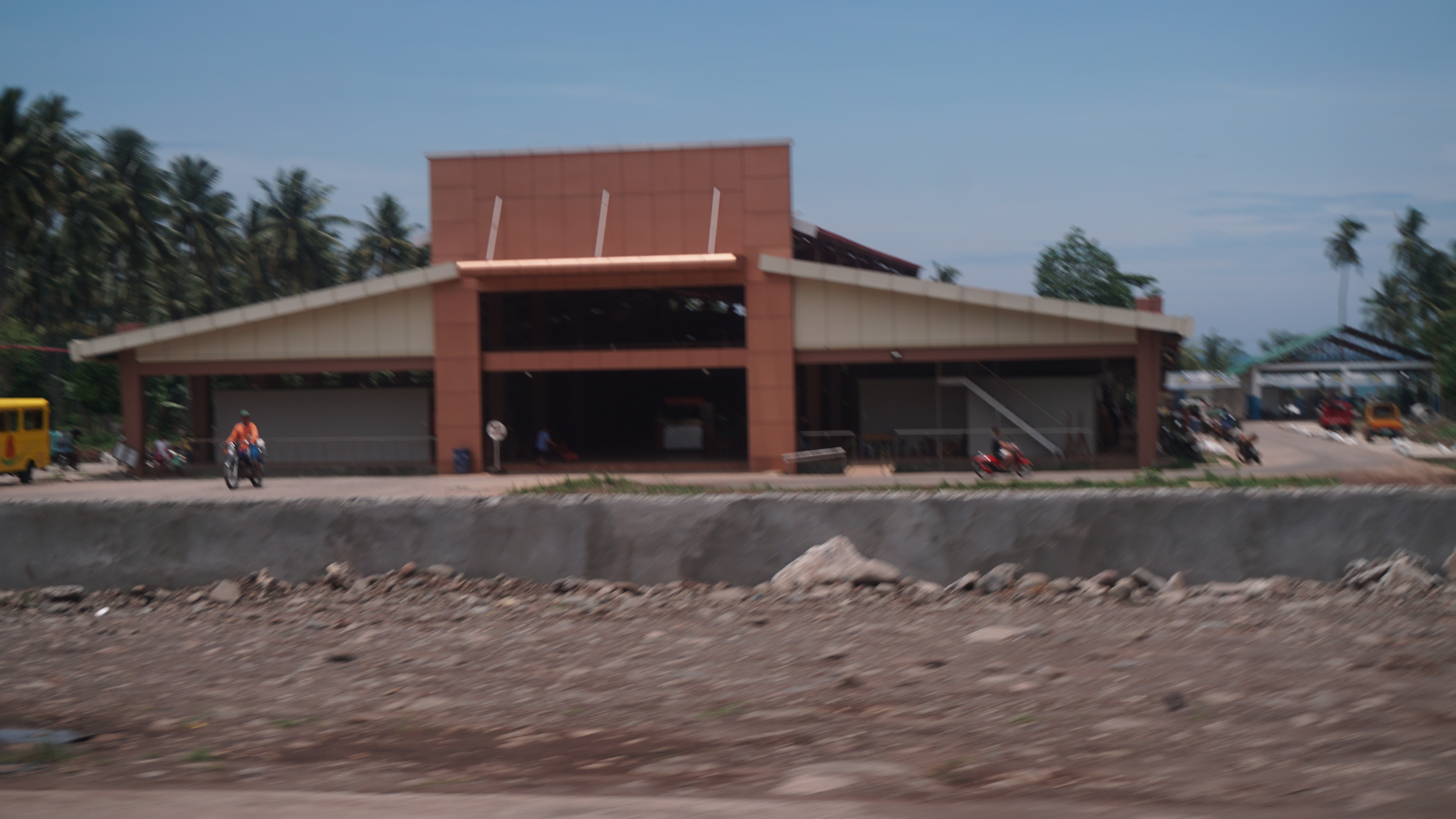 Salay Municipal Public Market